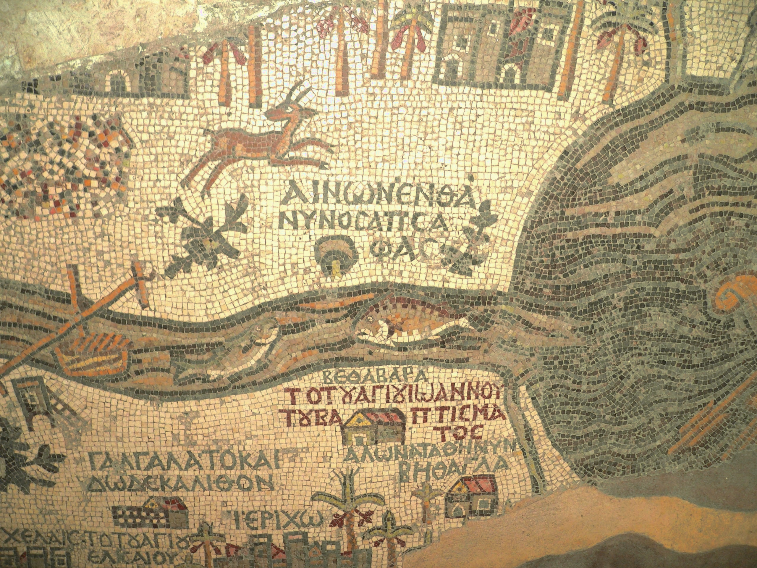 Site(s) of Baptism on Madaba Map M. Disdero, Madaba 21/02/2007